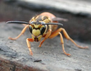 Yellow jacket queen Image copyleft